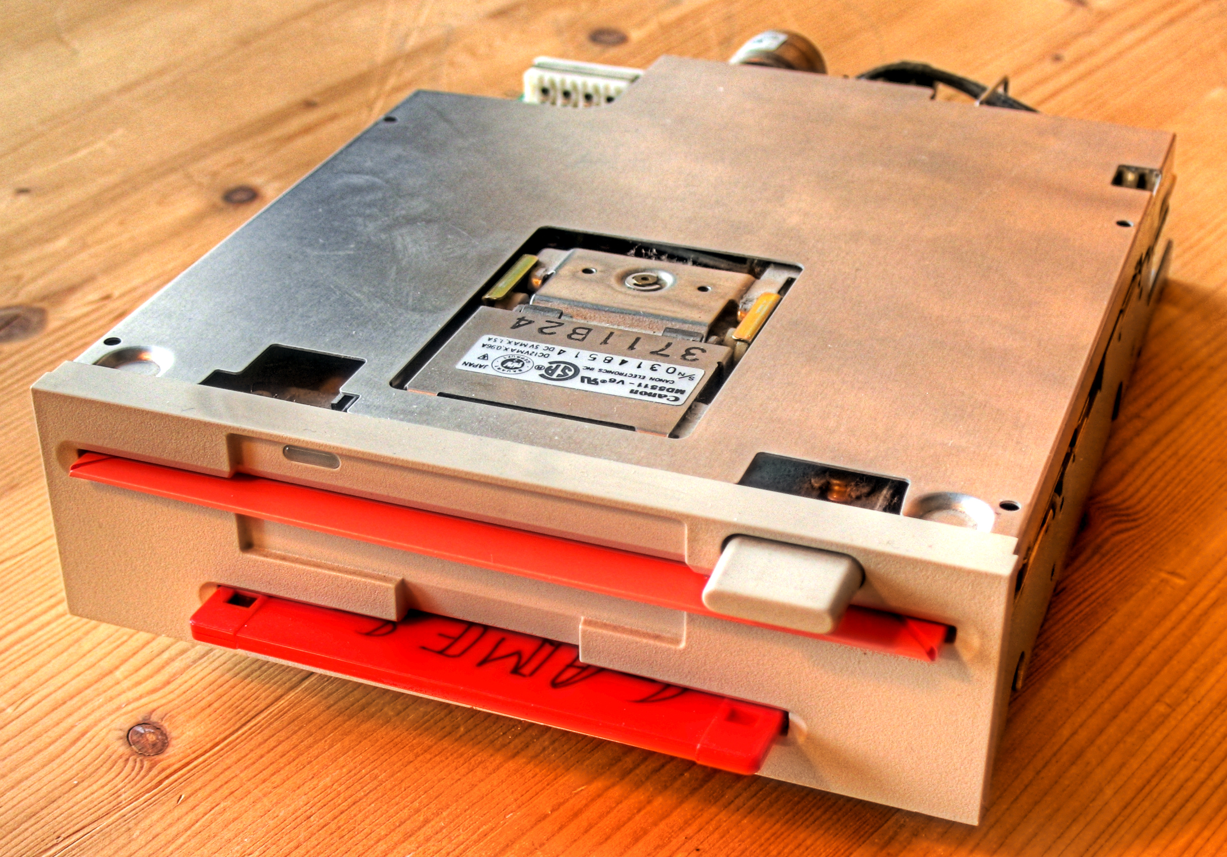 Dual disk drive (Combo Floppy drive) for 5.25 and 3.5 inch with floppy disks